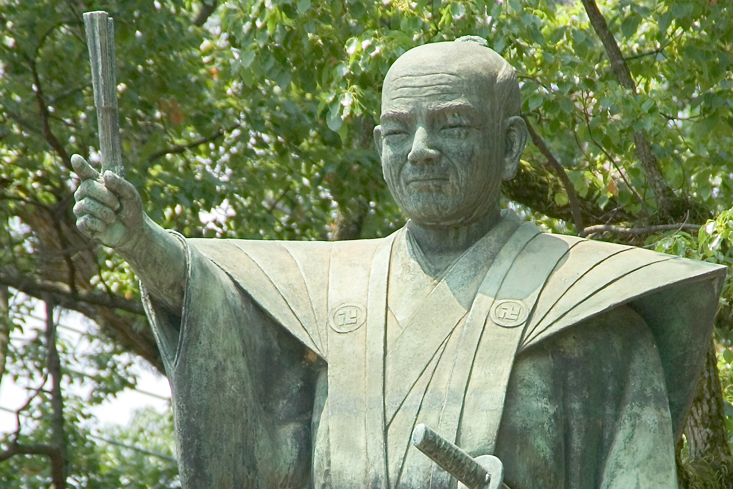 Statue of Hachisuka Iemasa, daimyo who founded the han at Tokushima (Awa Province), Tokushima Prefecture, Japan. I took the photo and contribute my rights in it to the public domain. Compare This image Wider view